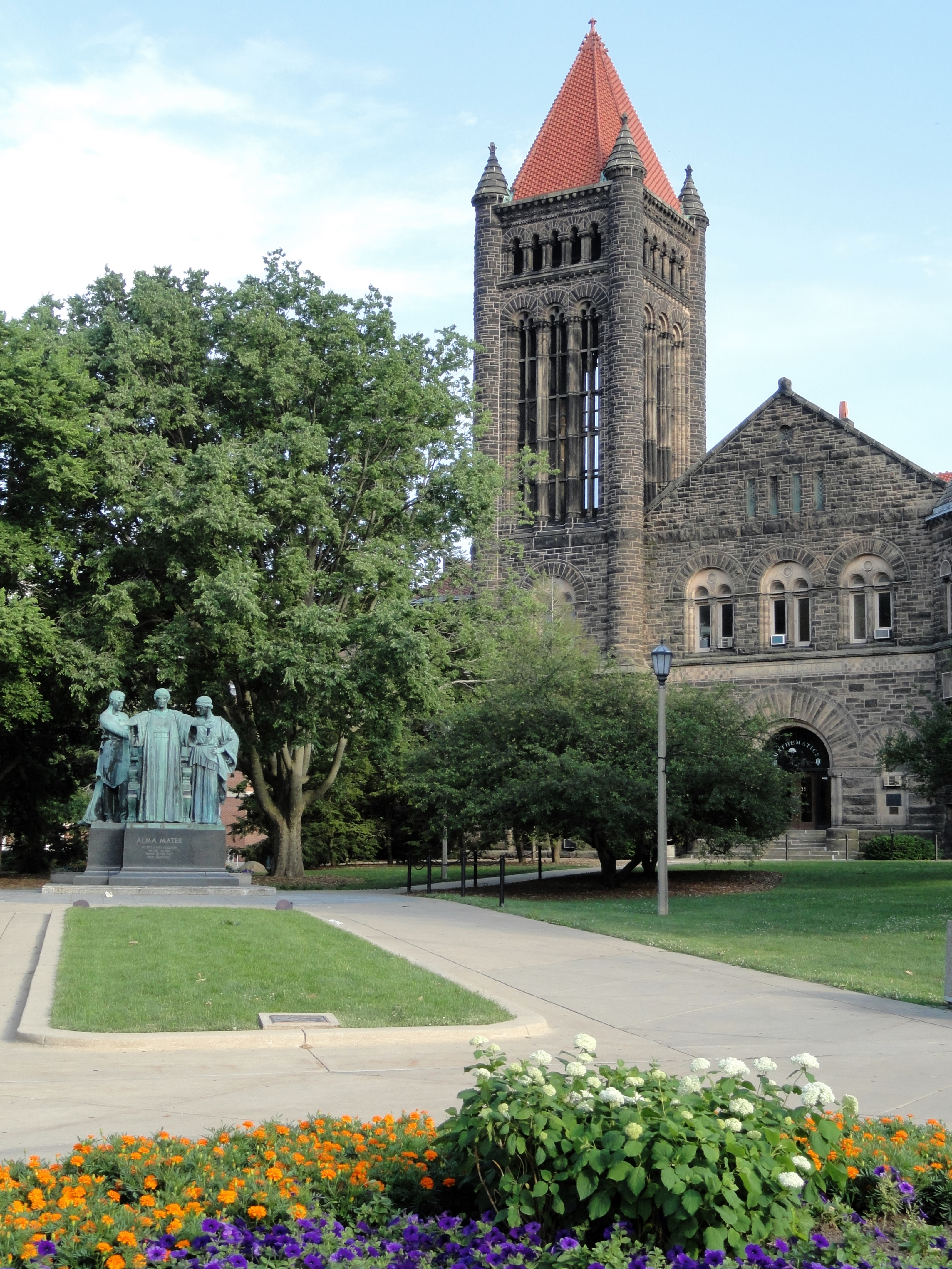 Building on the campus of the University of Illinois at Urbana-Champaign (UIUC), Urbana-Champaign, Illinois, USA.